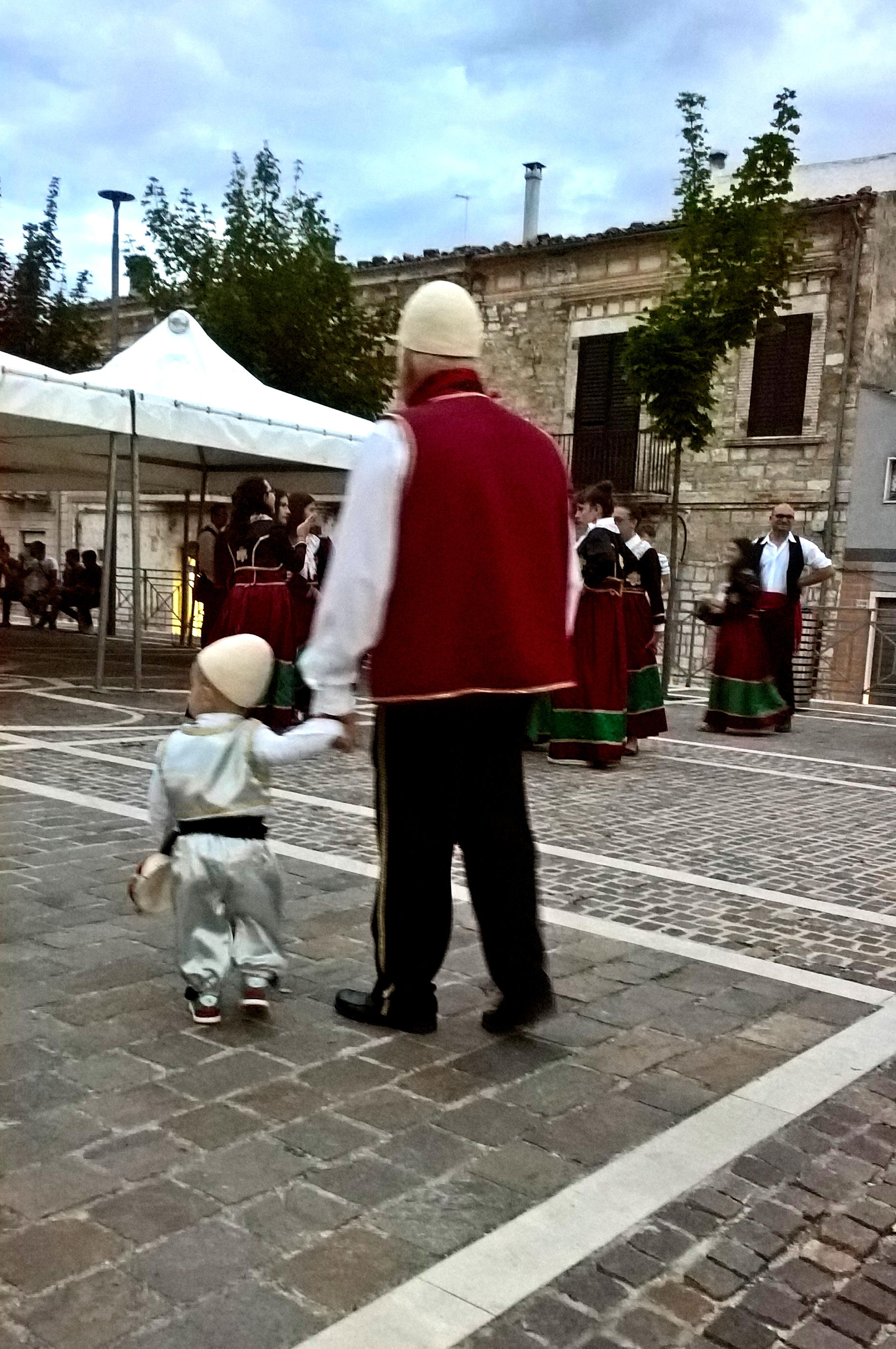 Arbëreshë costume of Casalvecchio di Puglia